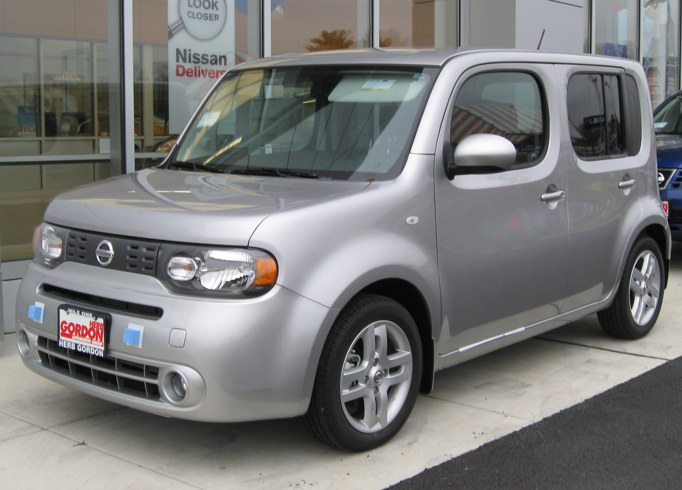 2009 Nissan cube photographed in Silver Spring, Maryland, USA.